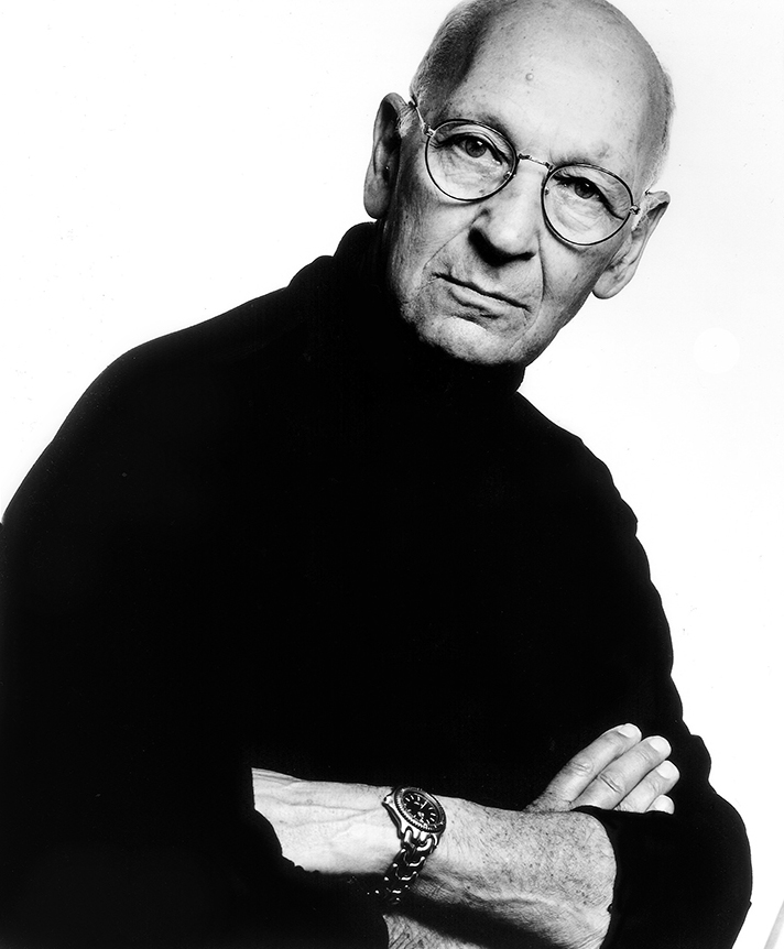 A photo of artist Harold Garde, taken by Jack Mitchell in 2000.